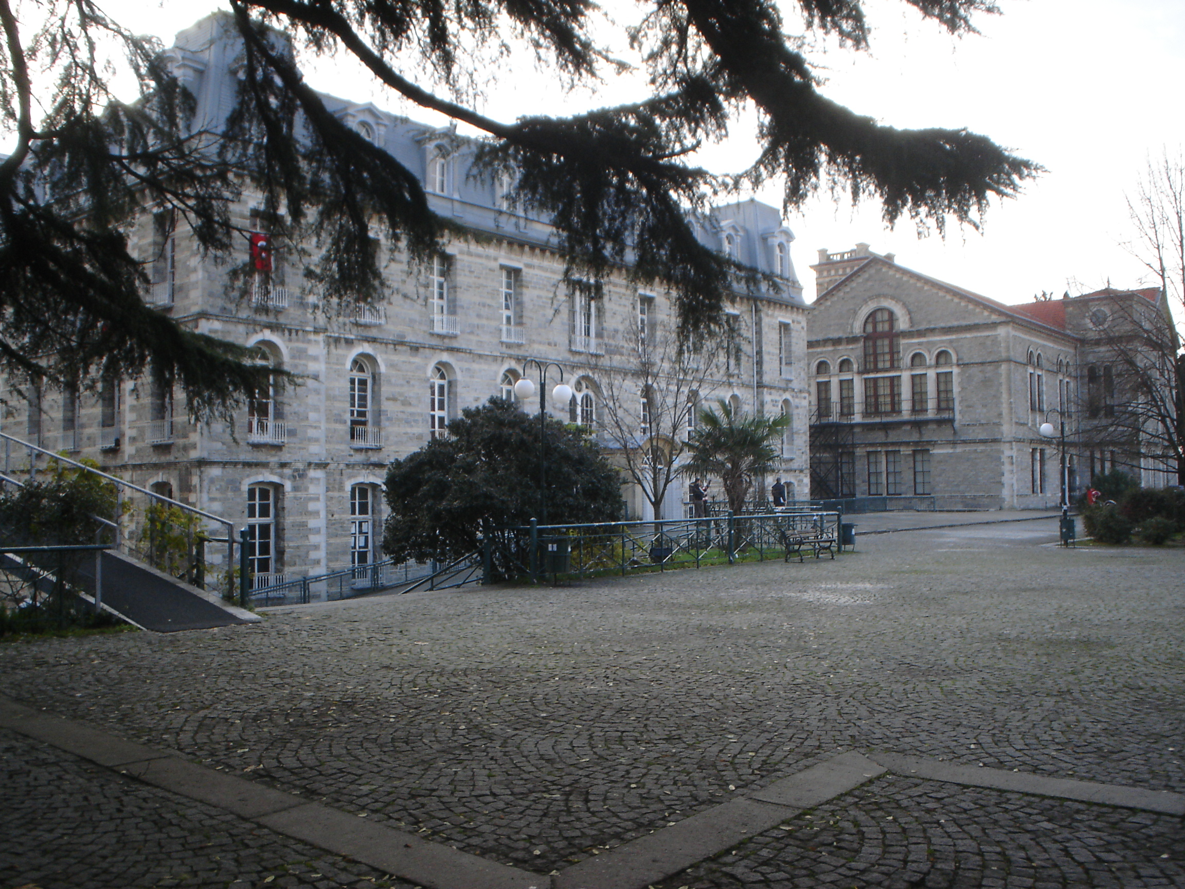 Bogazici University Hamin Hall